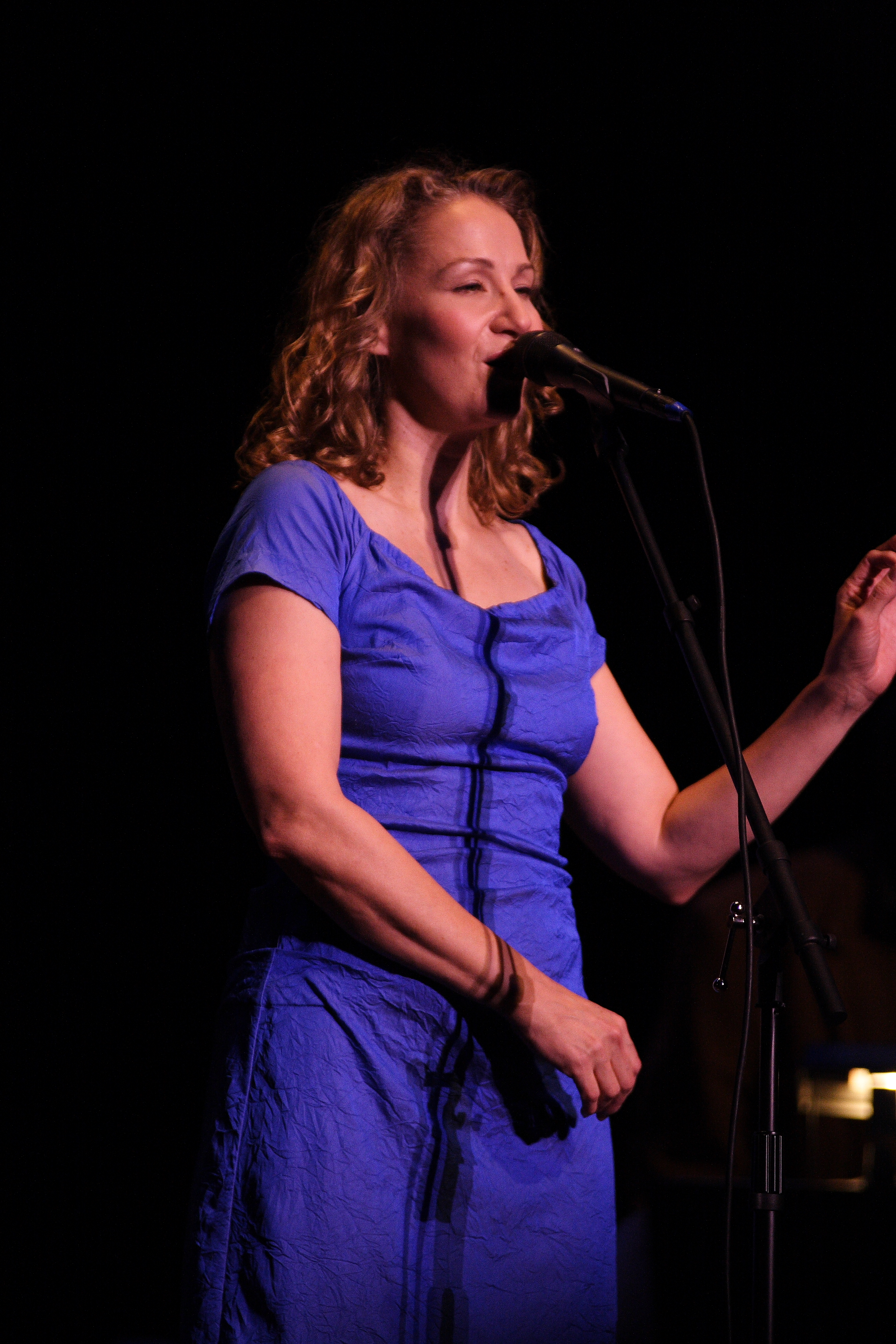 Joan Osborne performed at The Grand in Wilmington, Delaware tonight with Paul Thorn and The Holmes Brothers